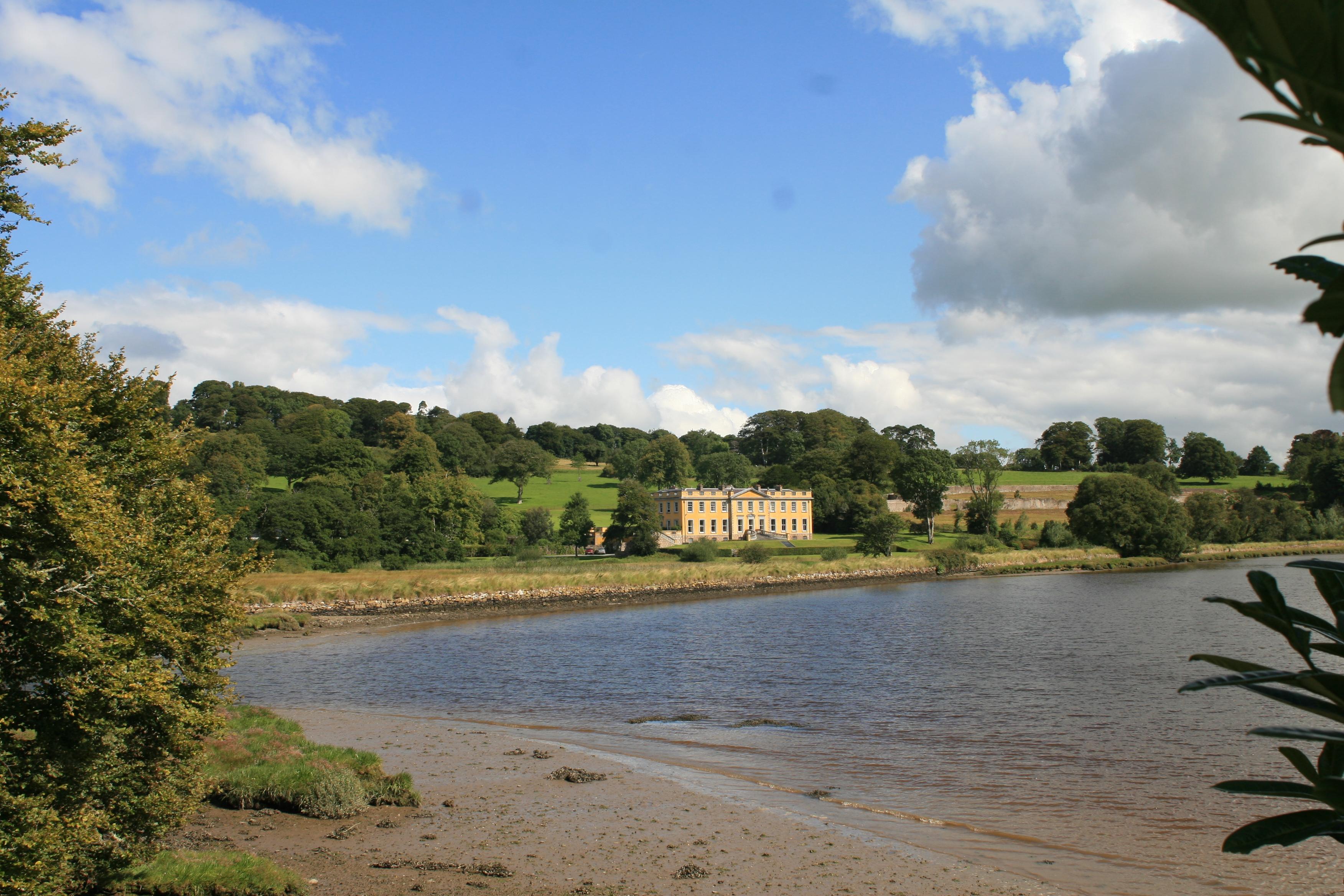 Ballynatray House, County Waterford, Ireland Late 18th century manor house at the Blackwater River as seen from Molana Priory